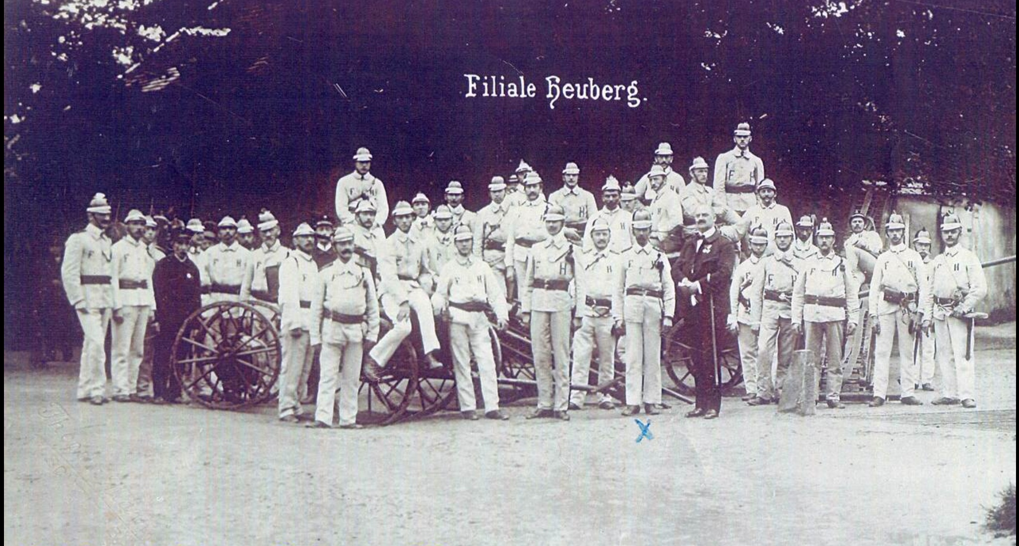 Feuerwehr Gaißmayer